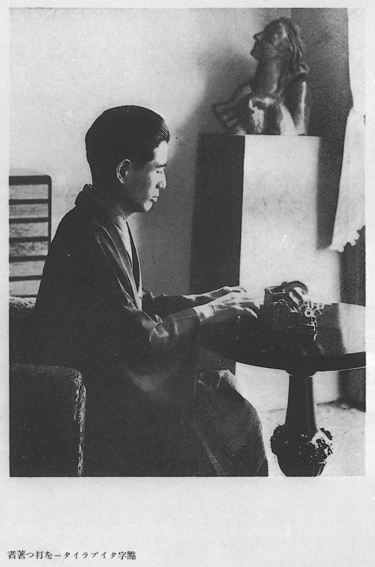 Portrait of Miyagi Michio (宮城道雄, 1894 – 1956)